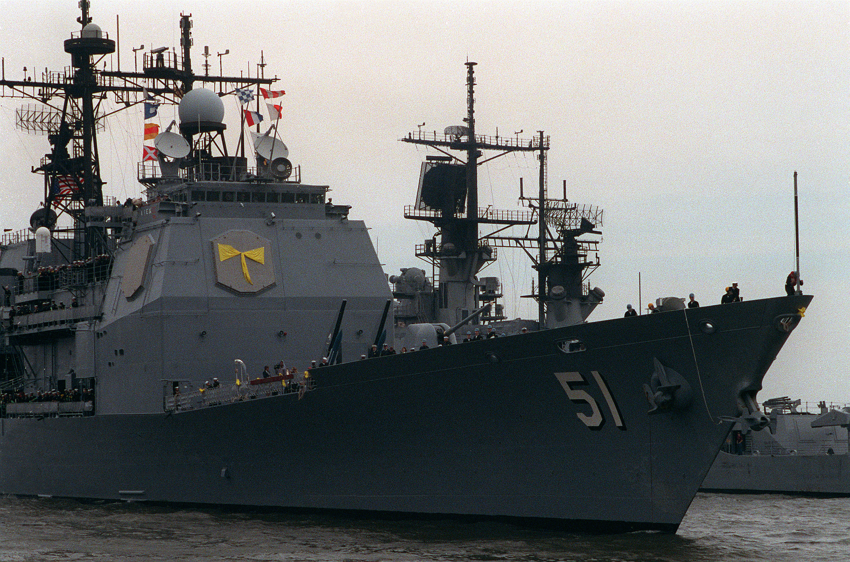 The guided missile cruiser USS THOMAS S. GATES (CG-51) returns to Norfolk after its deployment to the Red Sea for Operation Desert Shield and Operation Desert Storm. Location: NAVAL AIR STATION, NORFOLK, VIRGINIA (VA) UNITED STATES OF AMERICA (USA)